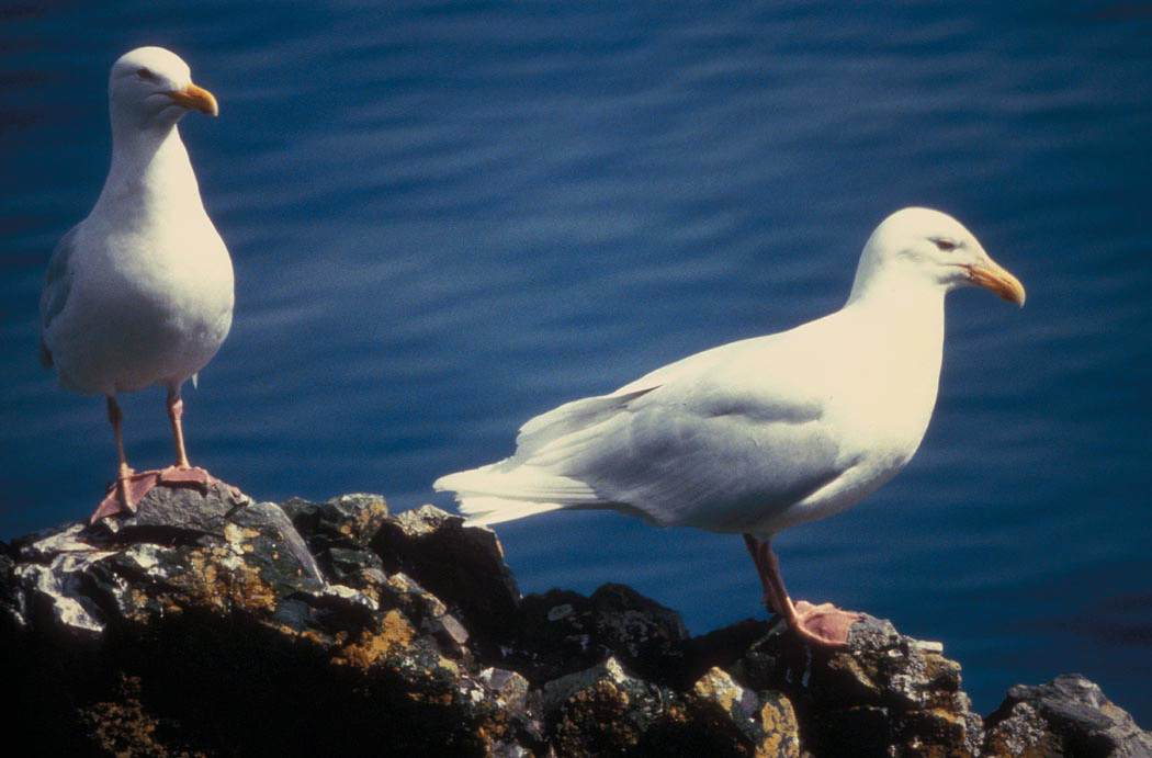 Glaucous Gulls Larus hyperboreus, Yukon Delta NWR, Alaska.